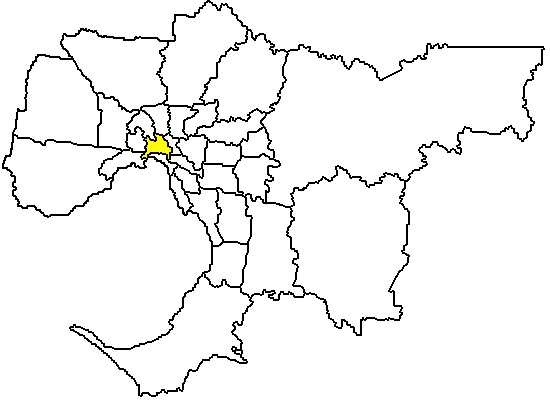 Map of Melbourne, Victoria (Australia), LGA of Melbourne City highlighted